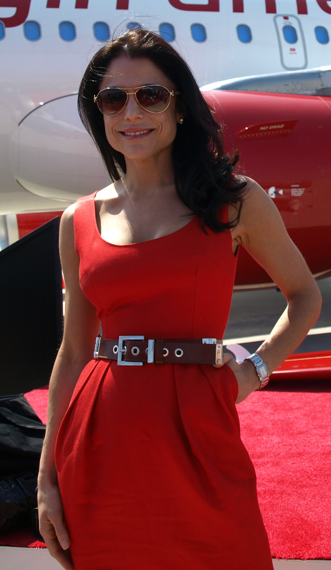 Bethenny Frankel at the Virgin America OC Launch.